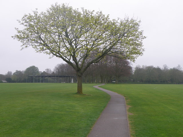 Path across the playing field St John's College recreation ground.